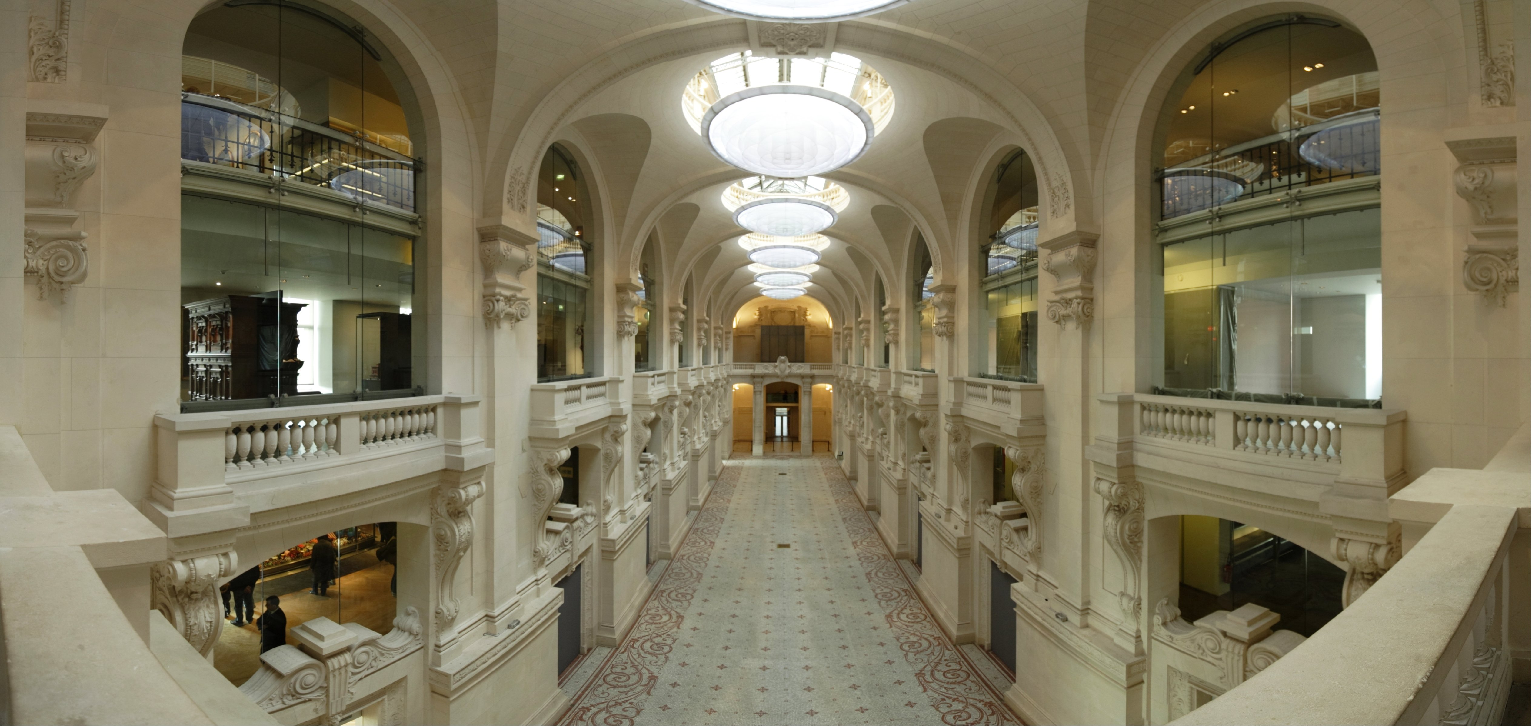 Panoramic view of inside Musée des arts décoratifs, Paris, France